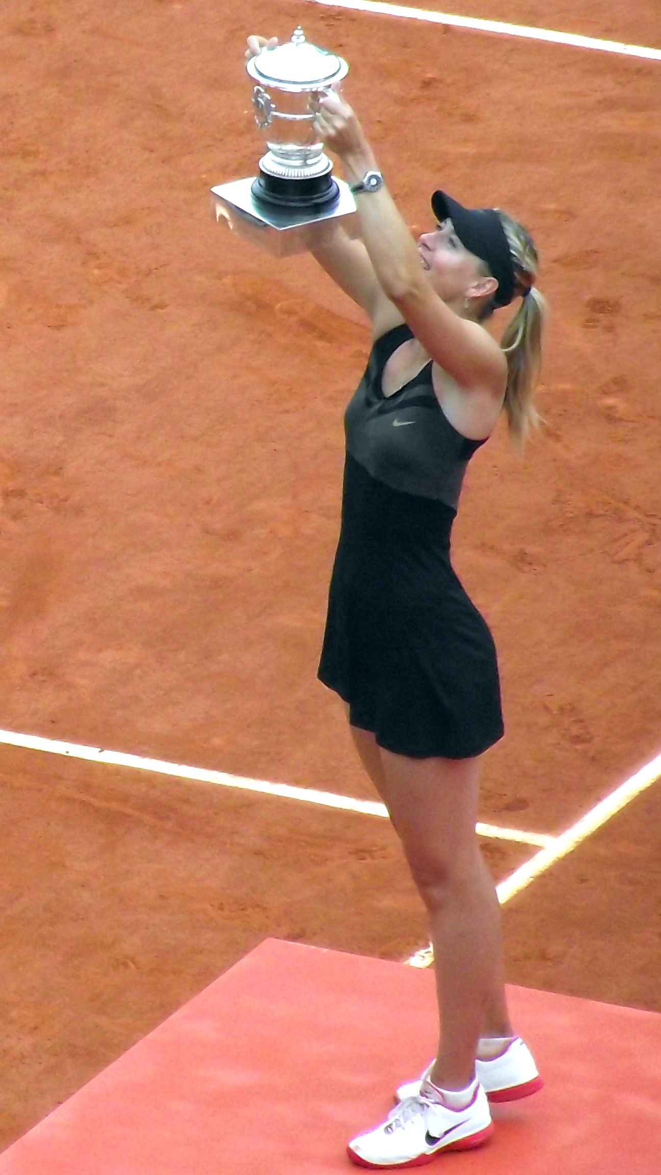 Champion Maria Sharapova holds Suzanne-Lenglen Cup at 2012 French Open, Paris, France.